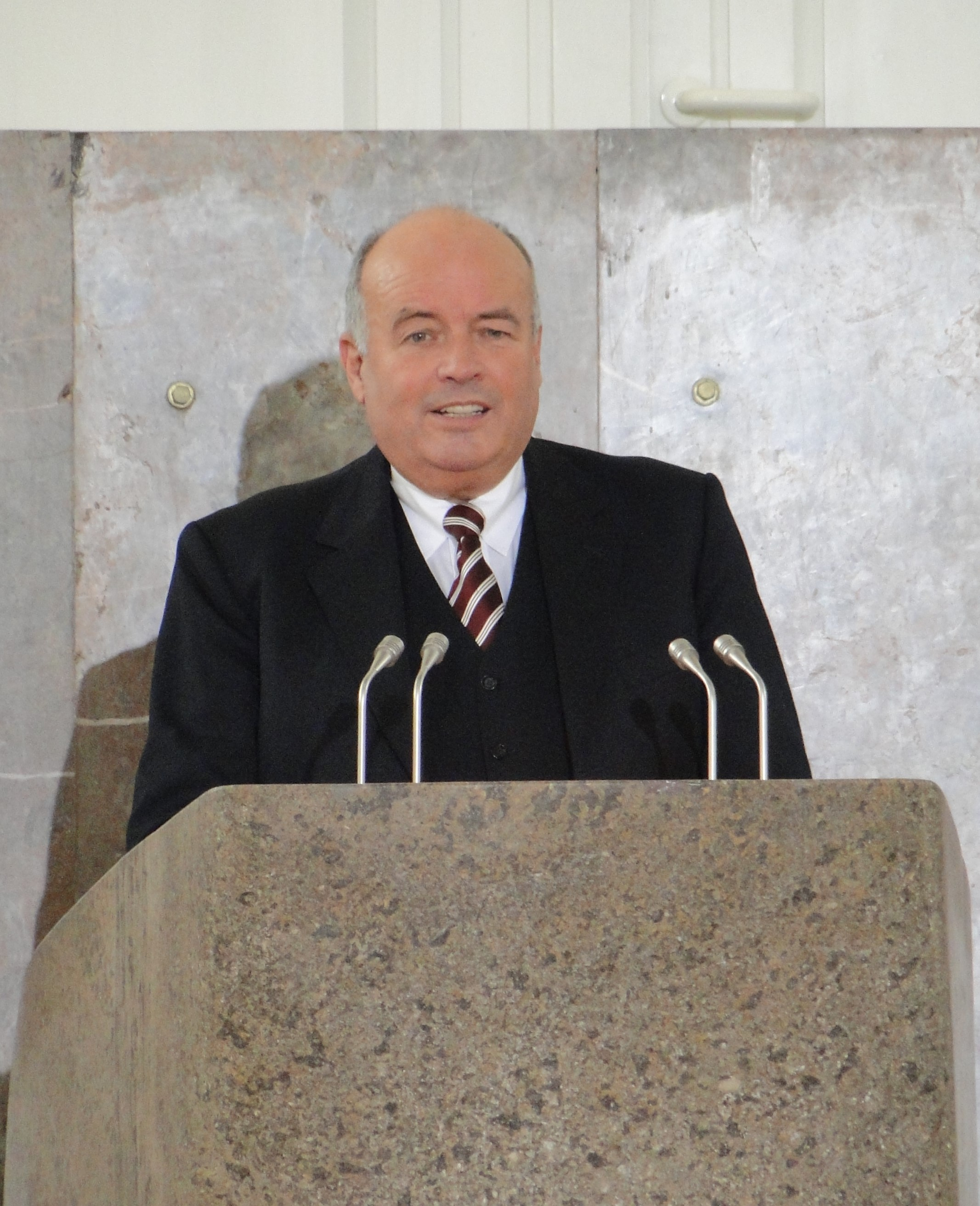 Gottfried Honnefelder, chairman of "Boersenverein des Deutschen Buchhandels", at ceremony (2009) of "Peace Prize of the German Book Trade", "Paulskirche" in Frankfurt am Main